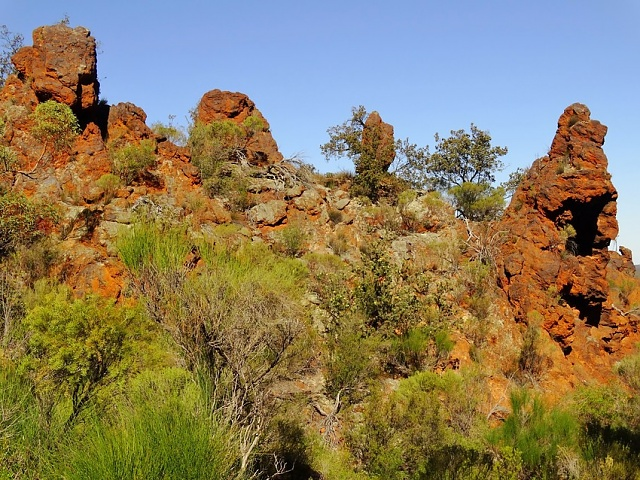 Banded Ironstone Formation (BIF) ranges of Helena Aurora Range- Sara Marques